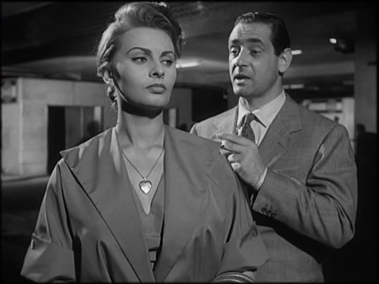 Good Folk's Sunday (1953)